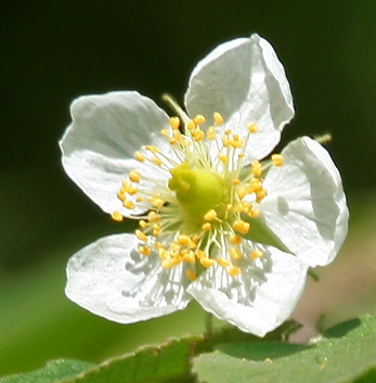 Singapur cherry, Jamaican cherry, Panama berry, Strawberry tree, gasa gase mara, Bird's cherry, poor man's cherry, Jam tree or Cotton candy berry Muntingia calabura in Hyderabad , India.